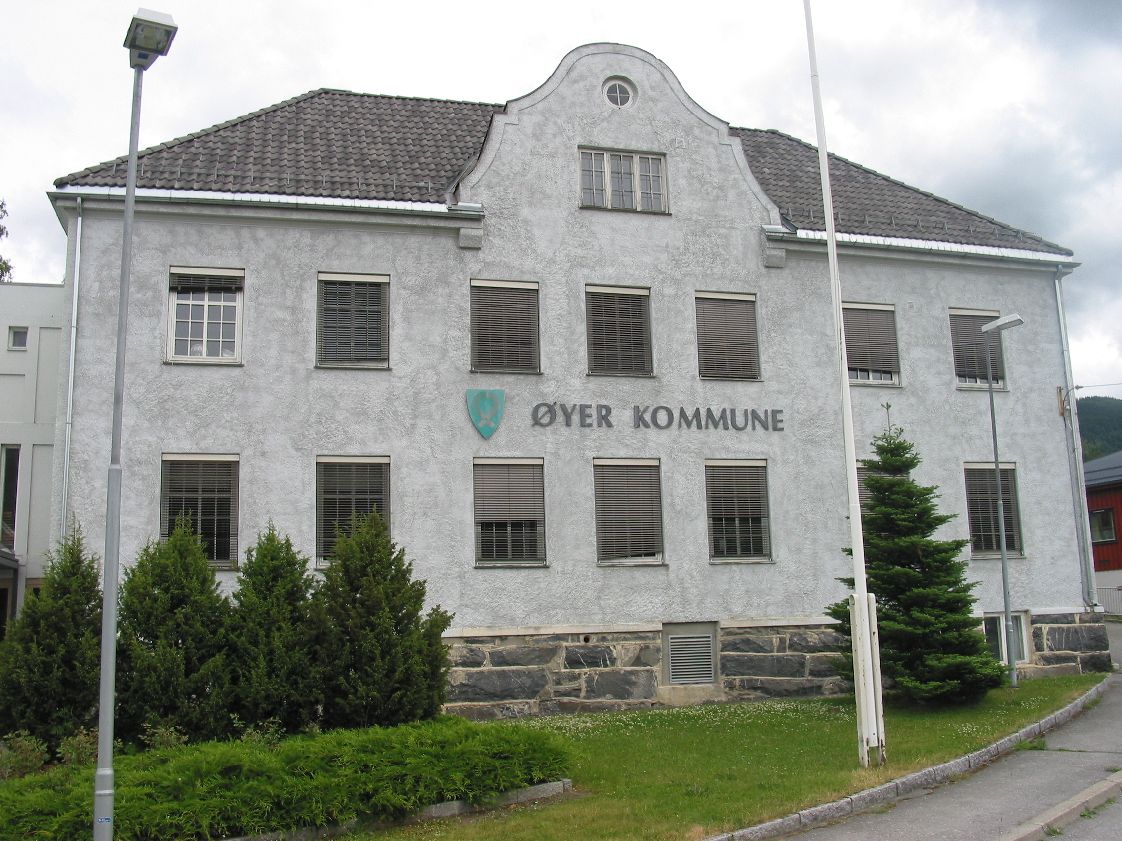 Øyer town all, in the village of Tingberg. June 2008.